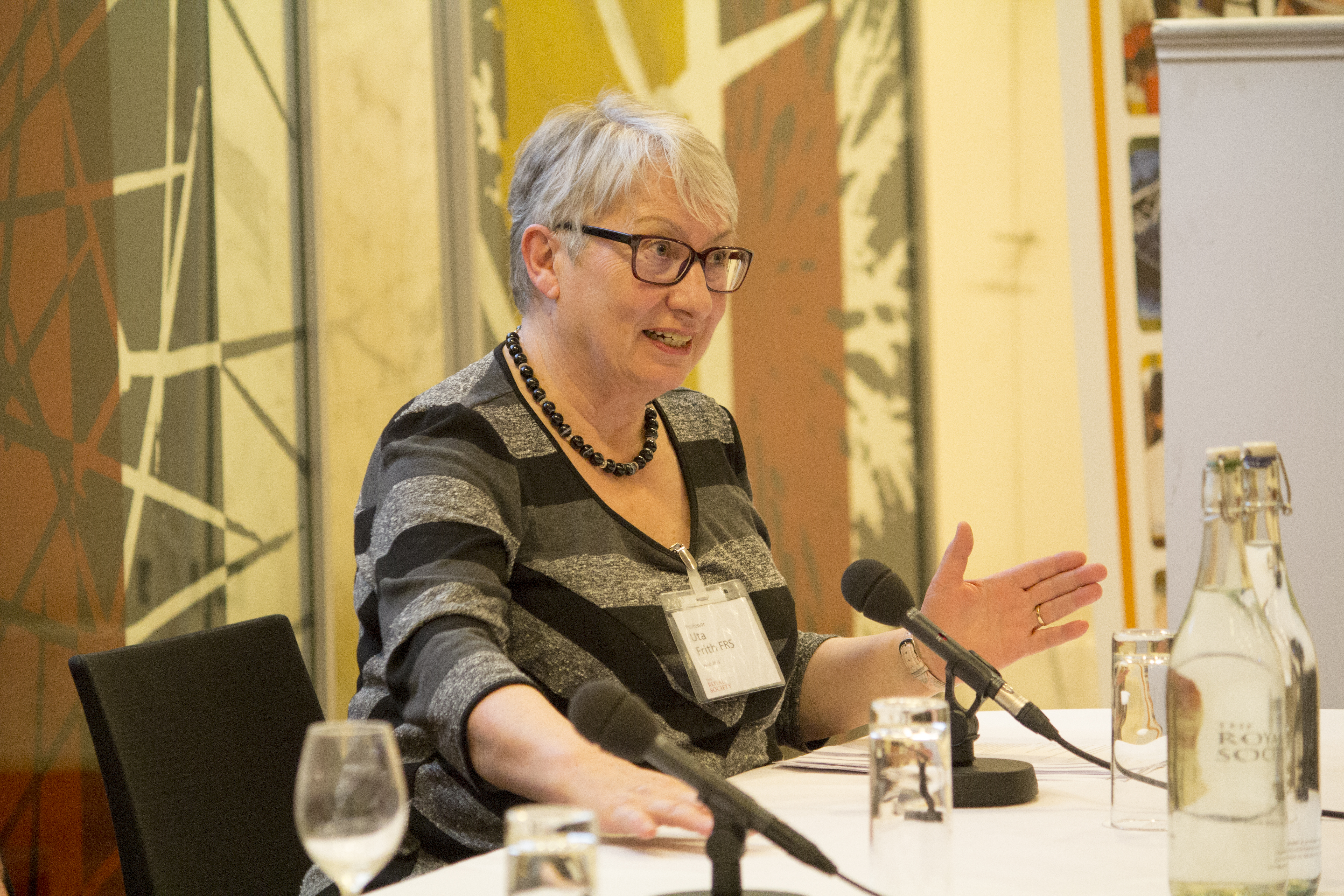 Royal Society Women in Science panel discussion.